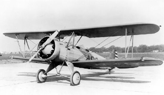 Consolidated Y1BT-6 basic trainer, s/n 31-595.